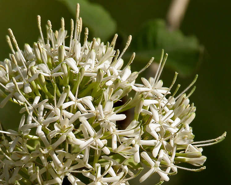 Pavetta crassicaulis - Indian paveta, Papdil, Indian Pellet Shrub, Kankara, Kathachampa, Kukurchura, Papat, Kattukkaranai, Karanai, Mallikamutti, Papidi, Pavati, Jui, Paniphingi, Sam-suku or Kakachdi at Lotus Pond, Hyderabad, India.